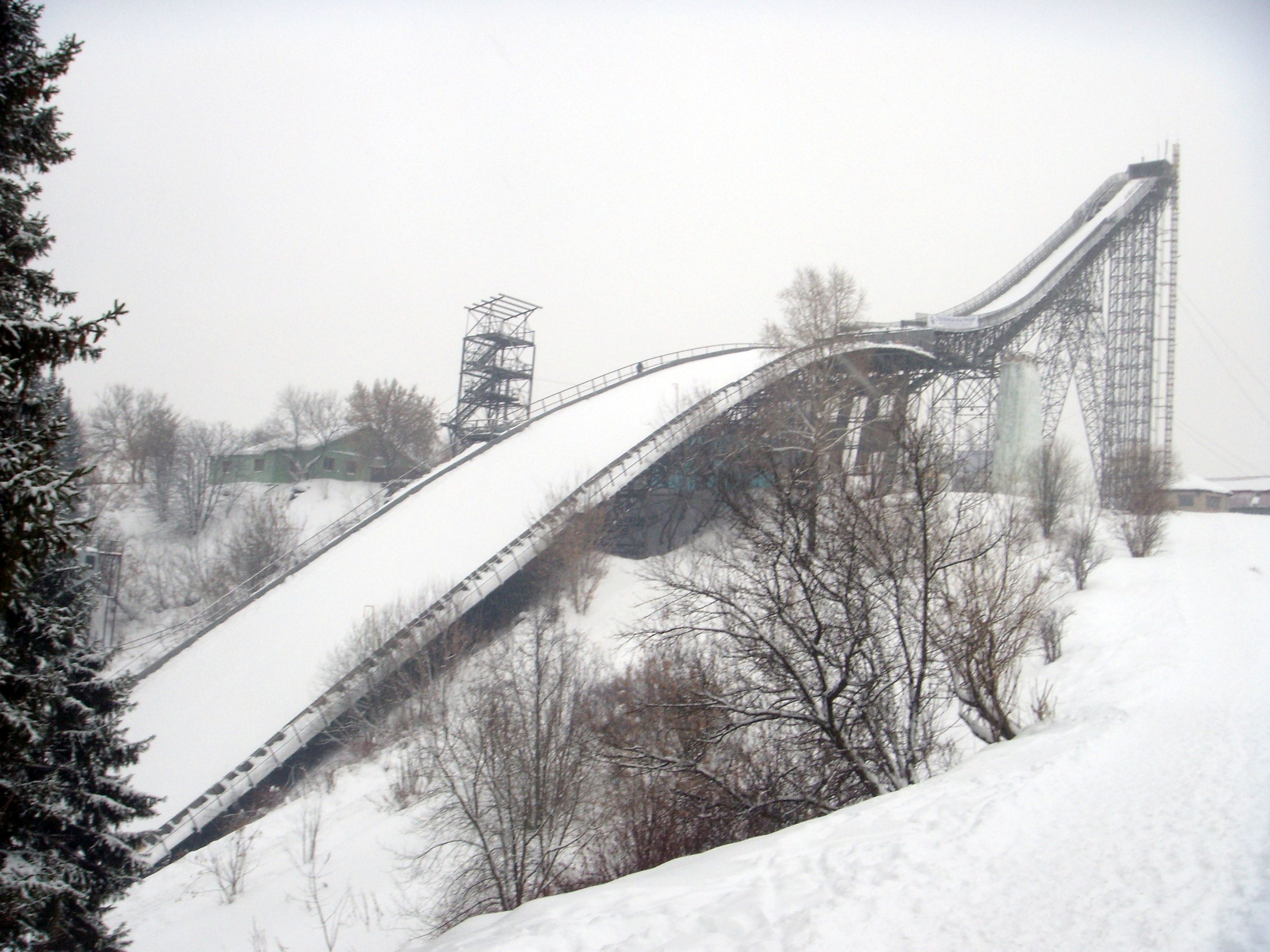 Springboard K90 of Kirov